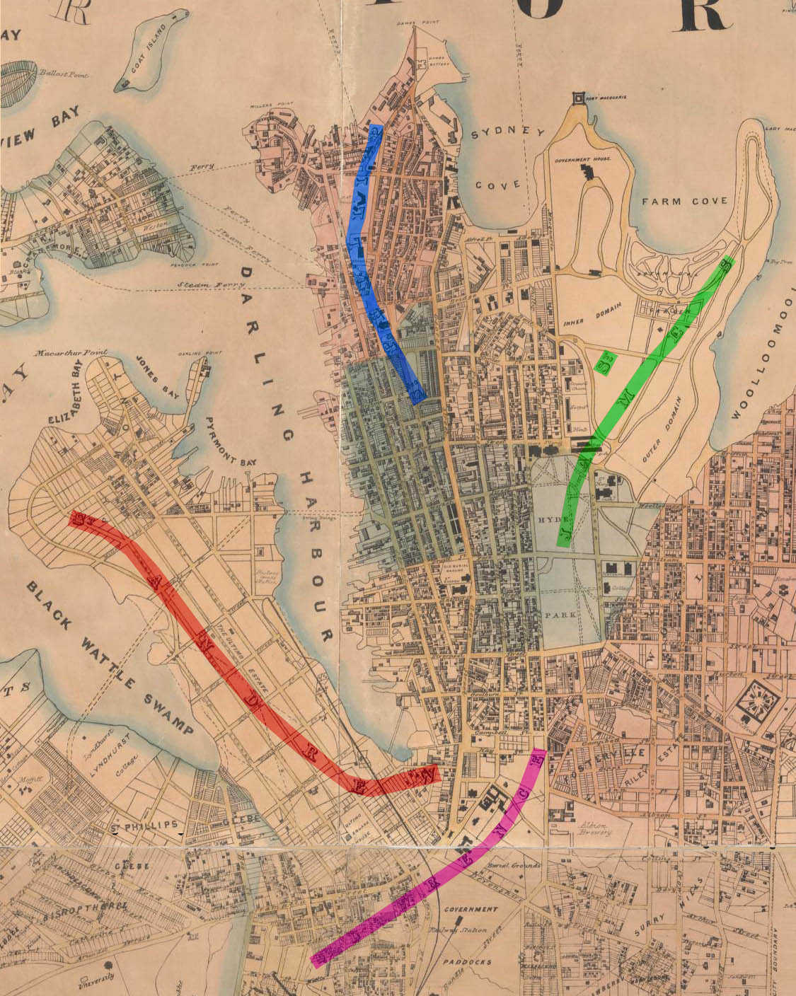 4 parishes in Sydney city, 1857: St. Philip (highlighted in blue) St. James (highlighted in green) St. Andrew (highlighted in red) St. Lawrence (highlighted in magenta)